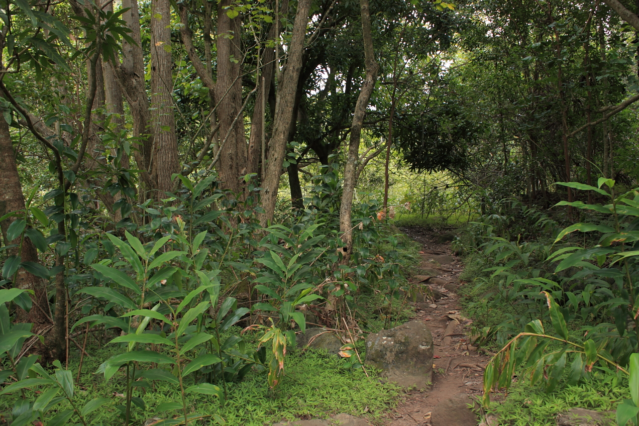 Iao Valley State Park forest